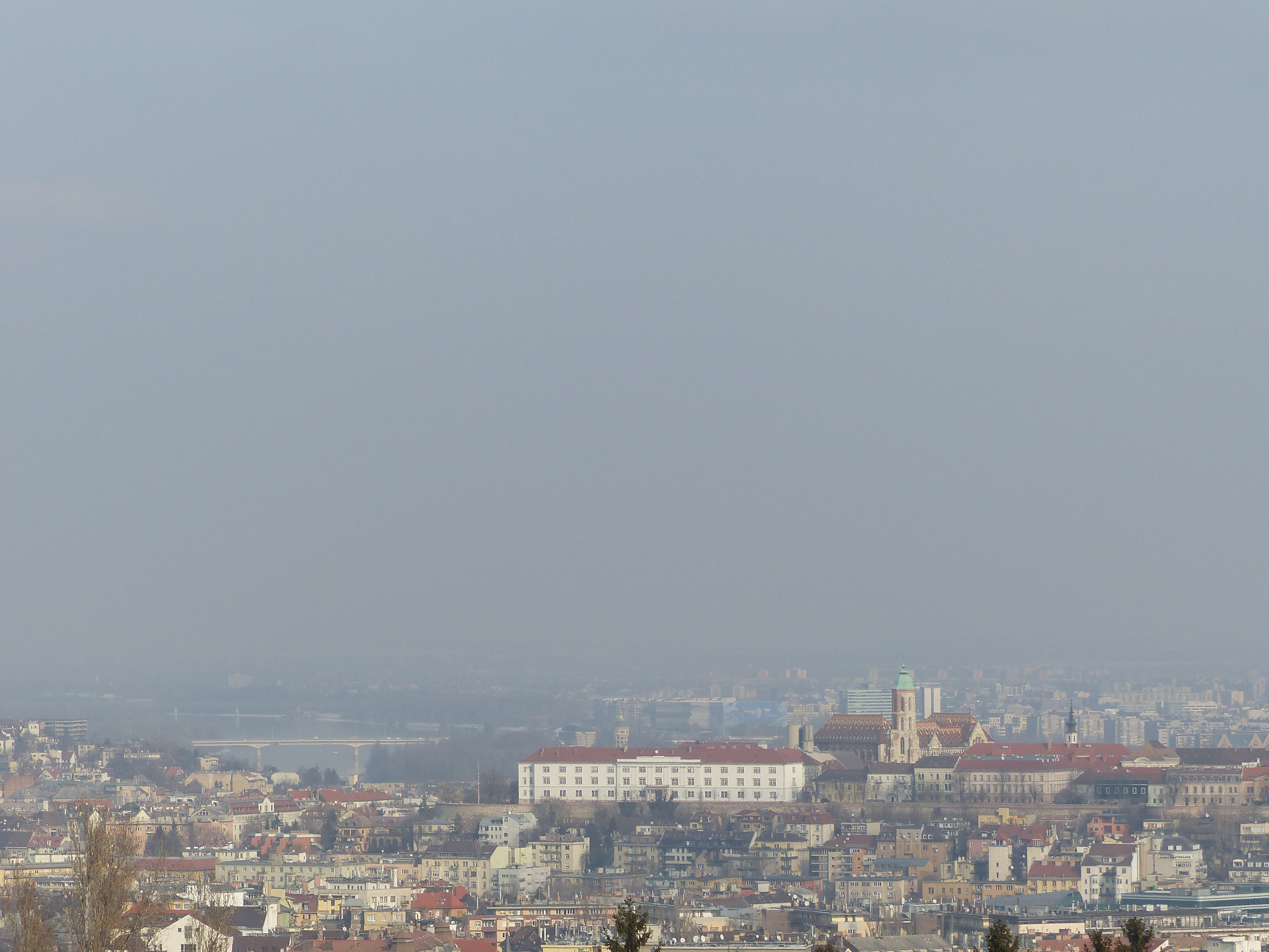 Taken on Thursday, 26th of January, 2017. Exactly noon. Szmog.